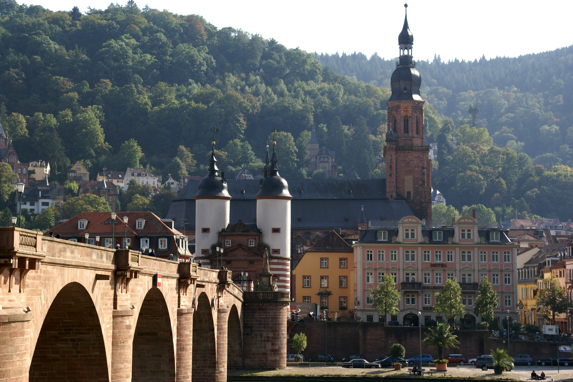 View of the Alte Brücke (Old Bridge) and the Heiliggeistkirche (Church of the Holy Spirit) over the River Neckar in Heidelberg, Germany